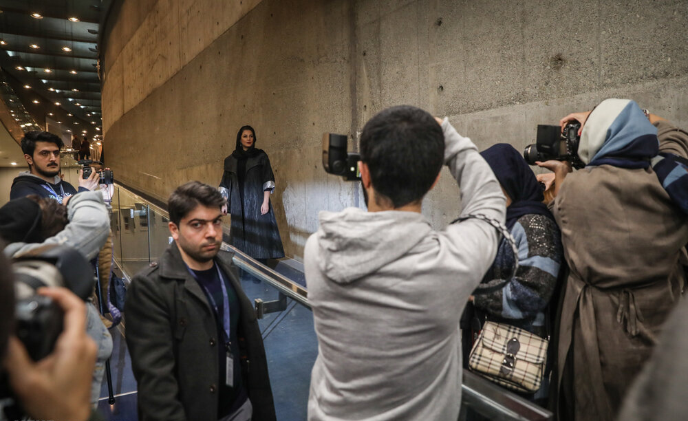 Second day of the 38th edition of the Fajr Film Festival at Mellat cineplex